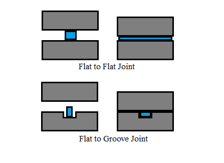 Two joint designs that can be used in implant induction welding, the flat to flat and flat to groove joint.